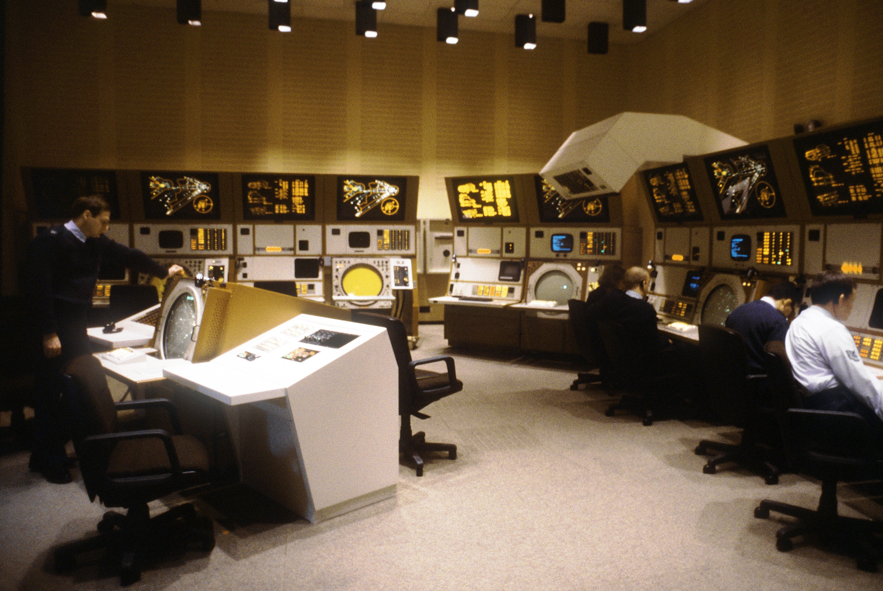 Air force personnel man the GPN-22 radar equipment in the Berlin Air Route Traffic Control Center (BARTCC) at Tempelhof Center Airport. French, British, and U.S. servicemen at BARTCC are responsible for controlling the three corridors through which Berlin is accessible by air.